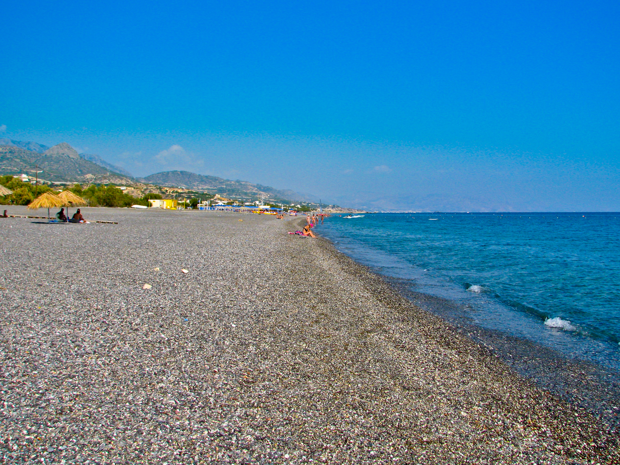 View of the Long Beach, a 5km beach in Ierapetra Unknown